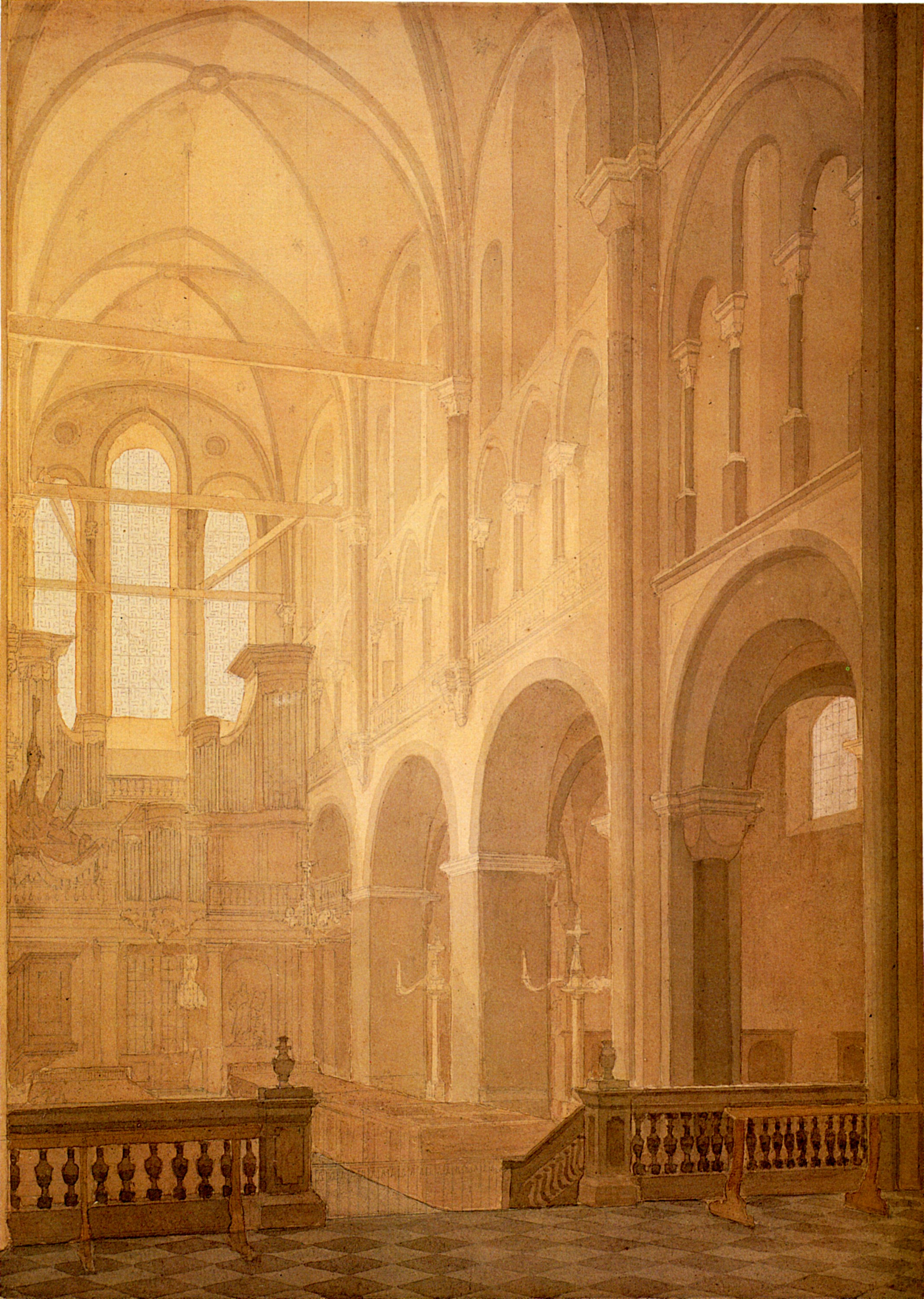 Watercolor, view through the main nave to the west side of Groß St. Martin, Cologne